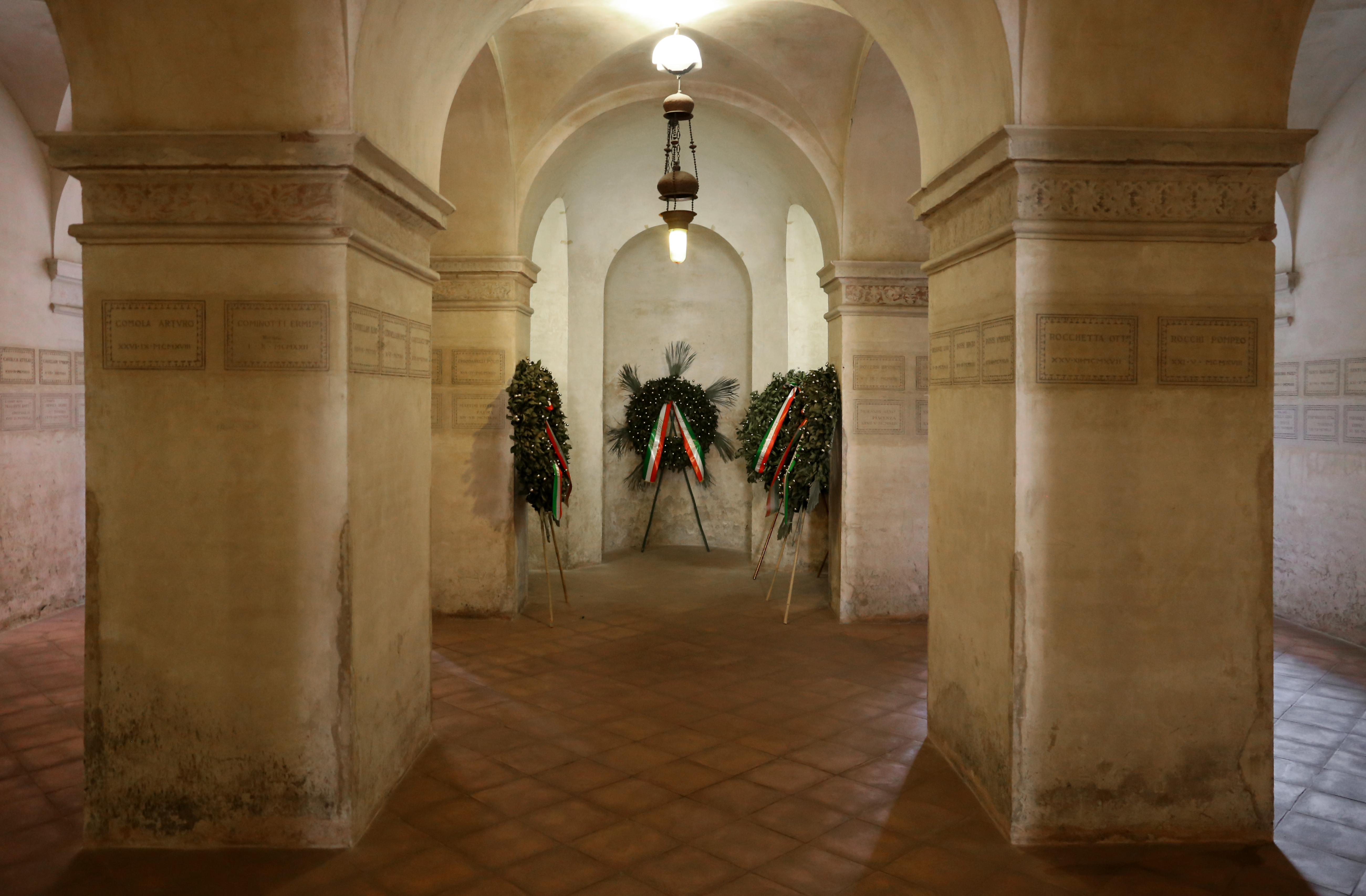 San Sebastiano (Mantua)